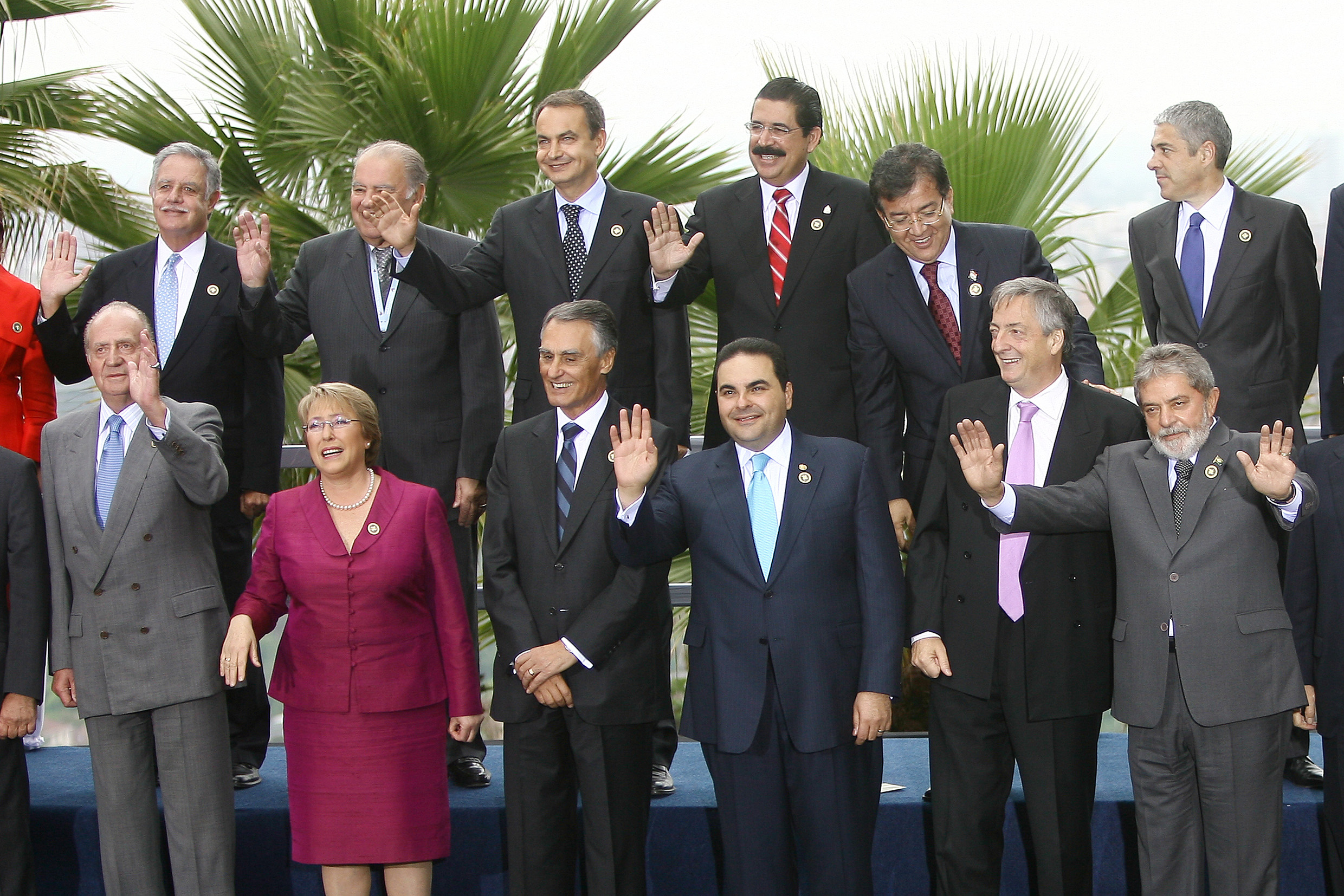 Official photograph of the leaders attending the Ibero-American Summit in Santiago, Chile.